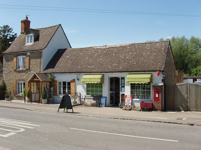 Shop and post office, Stanton Harcourt Opposite the village green.